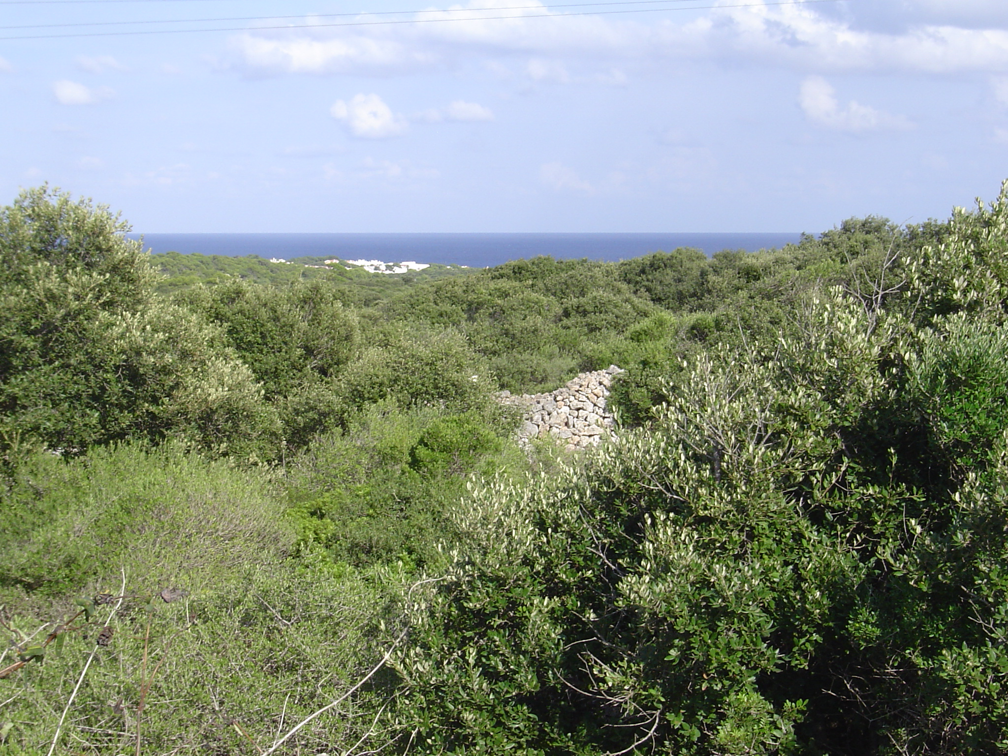 Wild olive grove ("ullastrar") from Menorca between Punta Prima and Sant Lluís.